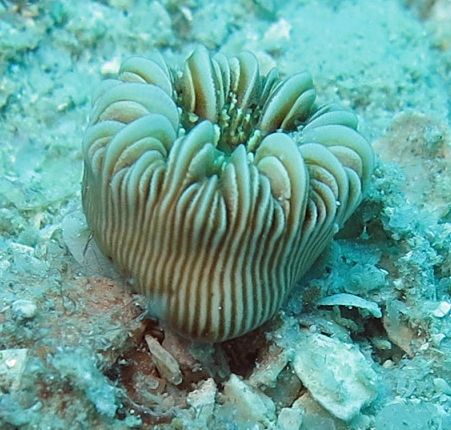 Heterocyathus aequicostatus at Watson's Bay, Lizard Island, 17 metres depth